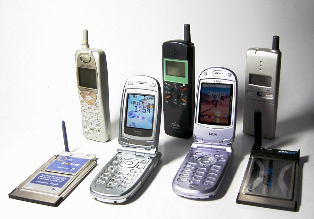 Personal Handy-phone System (PHS) A271/AP-33/AM-15/P-inm@ster/AH-G10/J700/SA3001V Mobile_phone_PHS_Japan_1997-2003